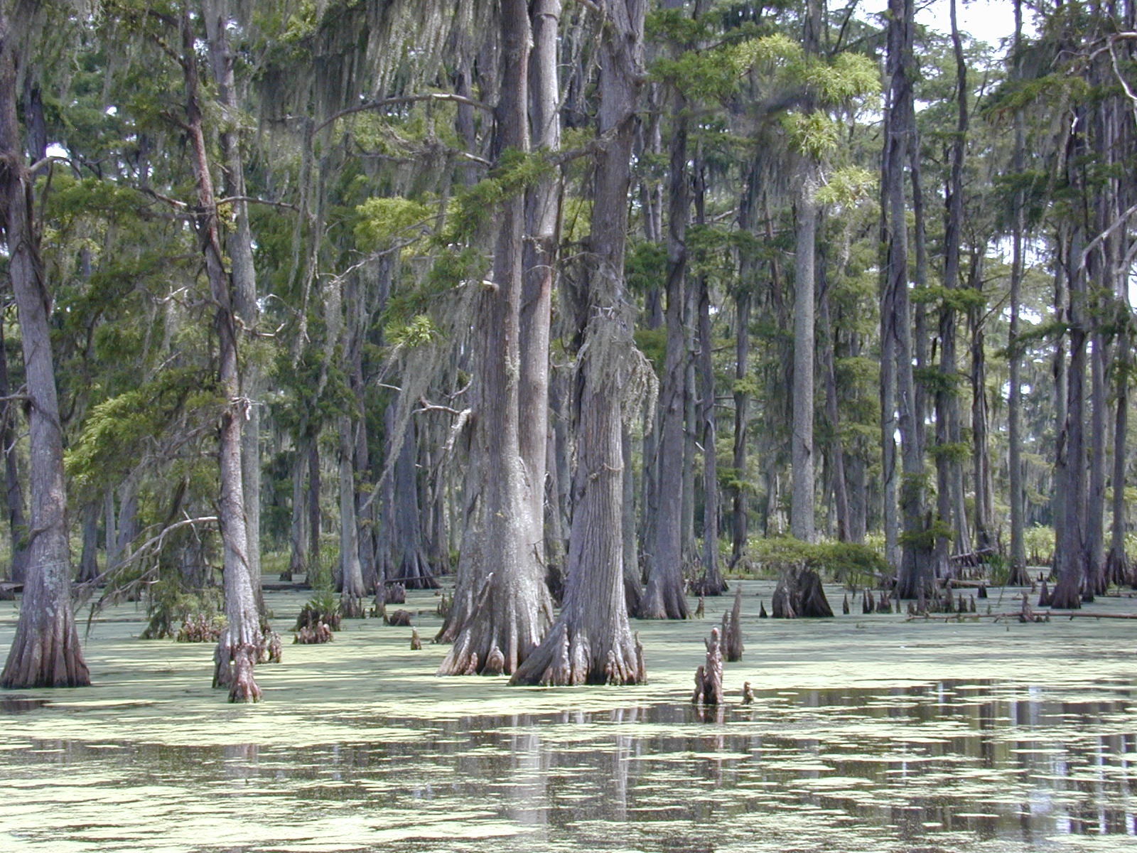 Taxodium distichum (Baldcypress) Swamp in southern Louisiana. Photo by Jan Kronsell, 2004